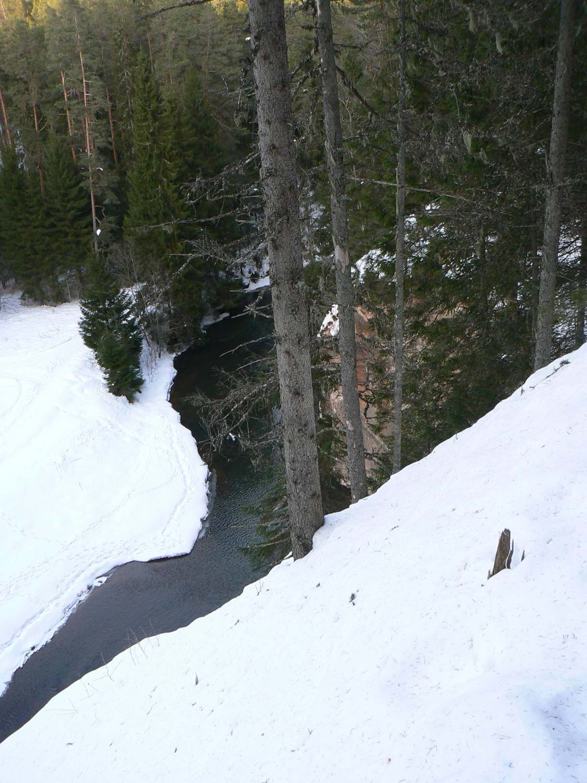 Taken from top of Great Taevaskoja outcrop to Ahja River